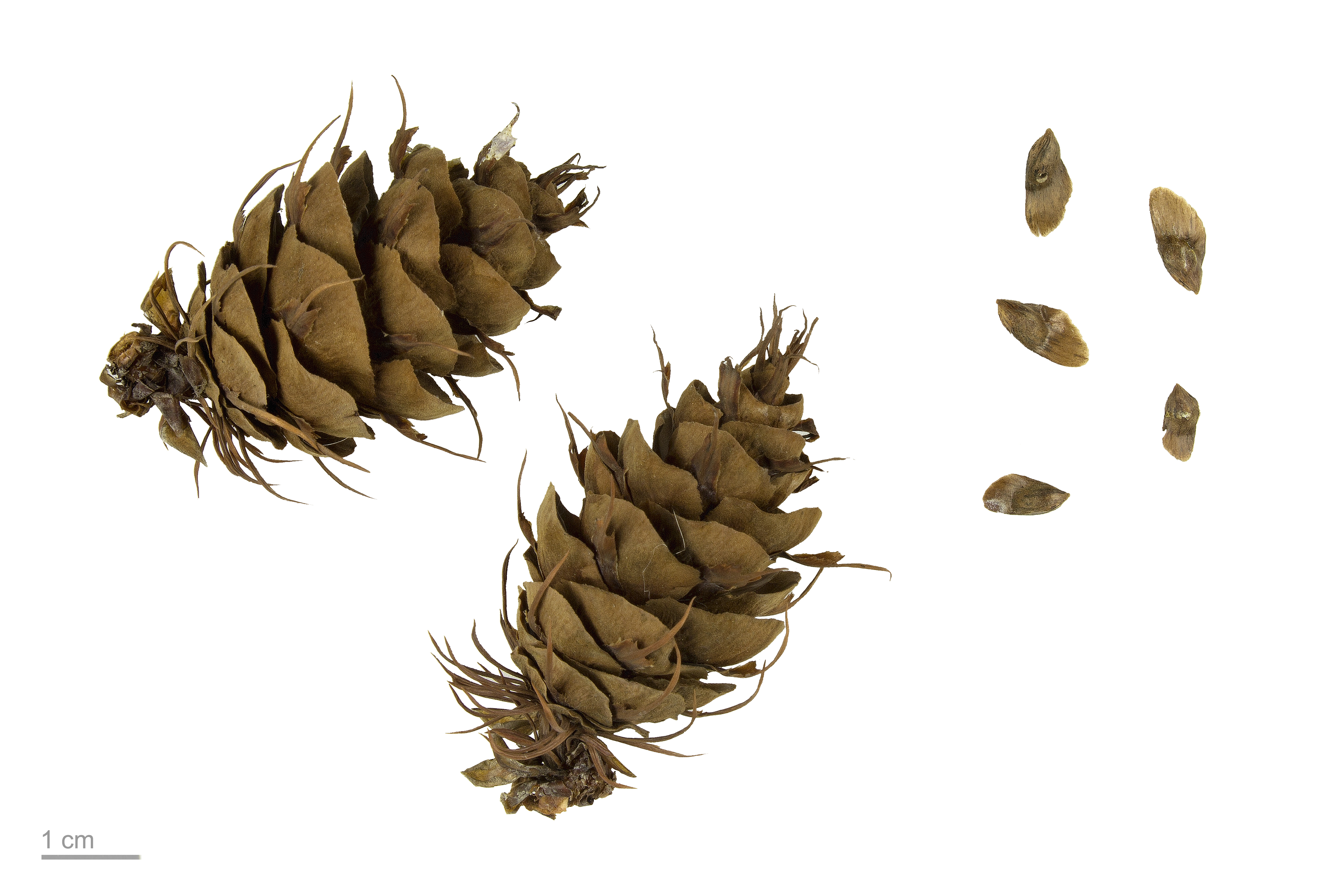 Douglas-fir, cones and seeds